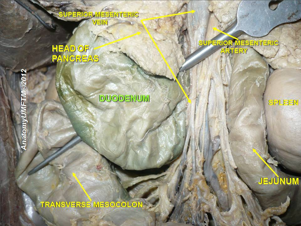 Anatomical dissections